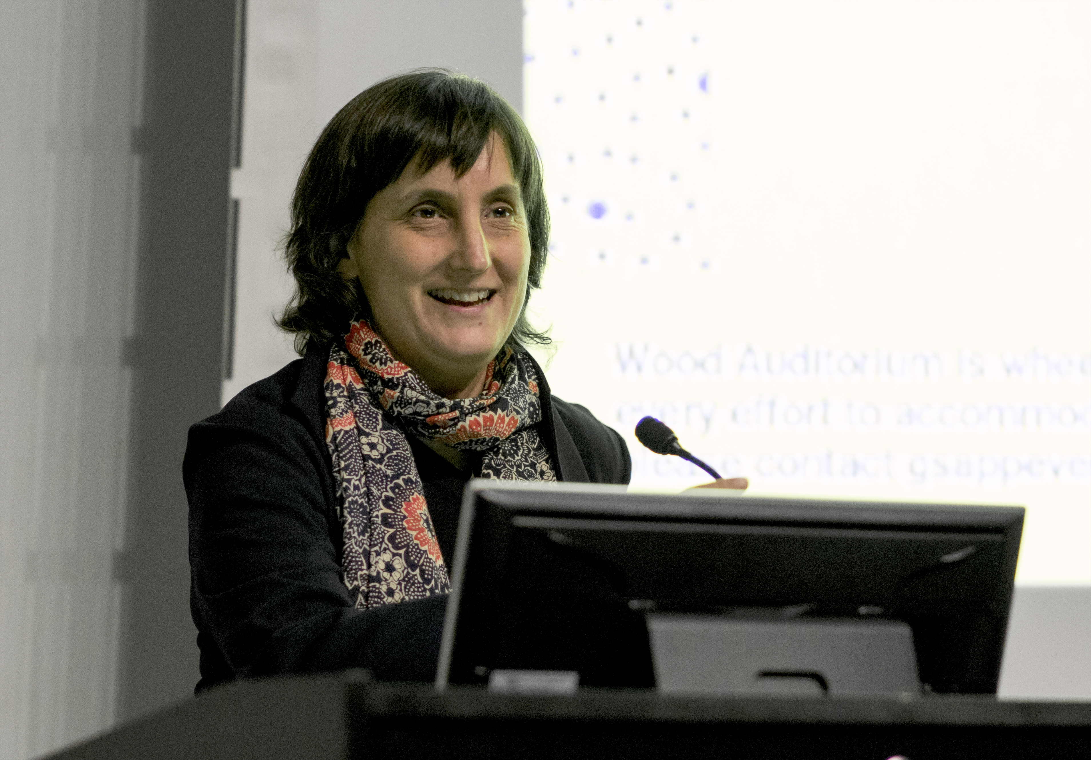 Laura Kurgan at Columbia University Graduate School of Architecture, Planning and Preservation, introducing a lecture by fellow professor Kate Orff.